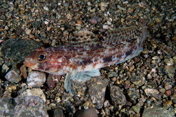 Gobius geniporus photographed near Livorno (Tuscany, Italy). Photio by Stefano Guerrieri.